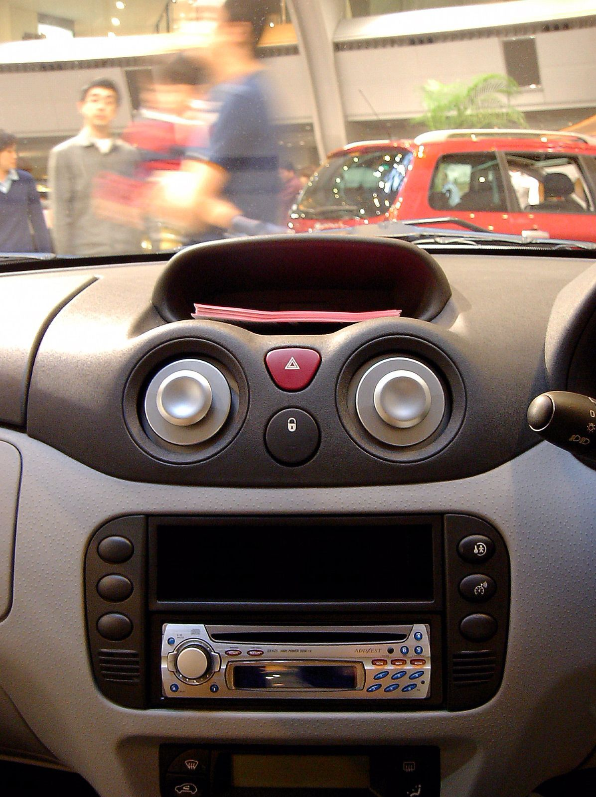 dashboard of Citroën C2large mouth